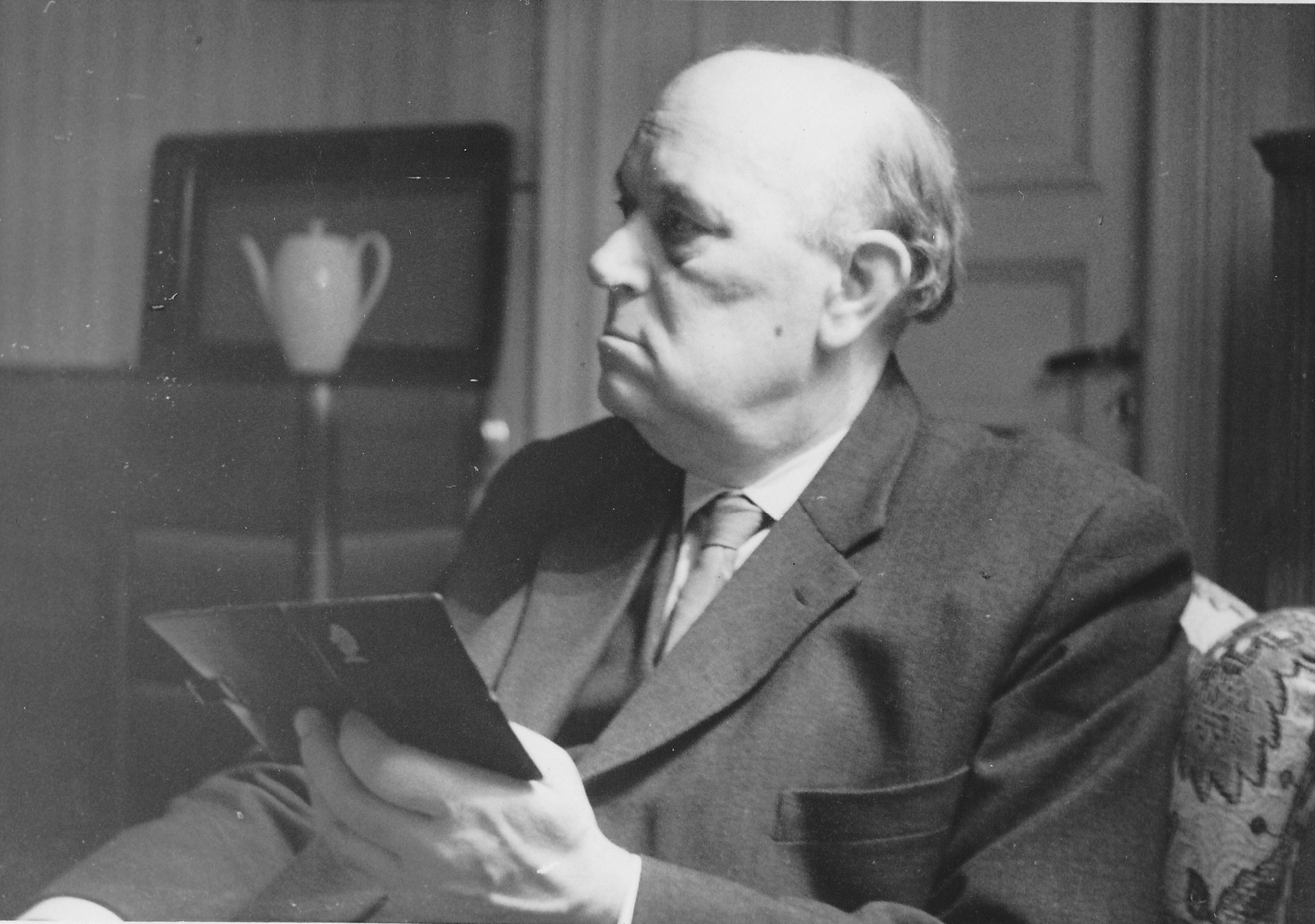 Wilhelm Schönmann (* 4. April 1889 in Burgdorf region Hannover; † 15. Mai 1970 in Hamburg) German chess master